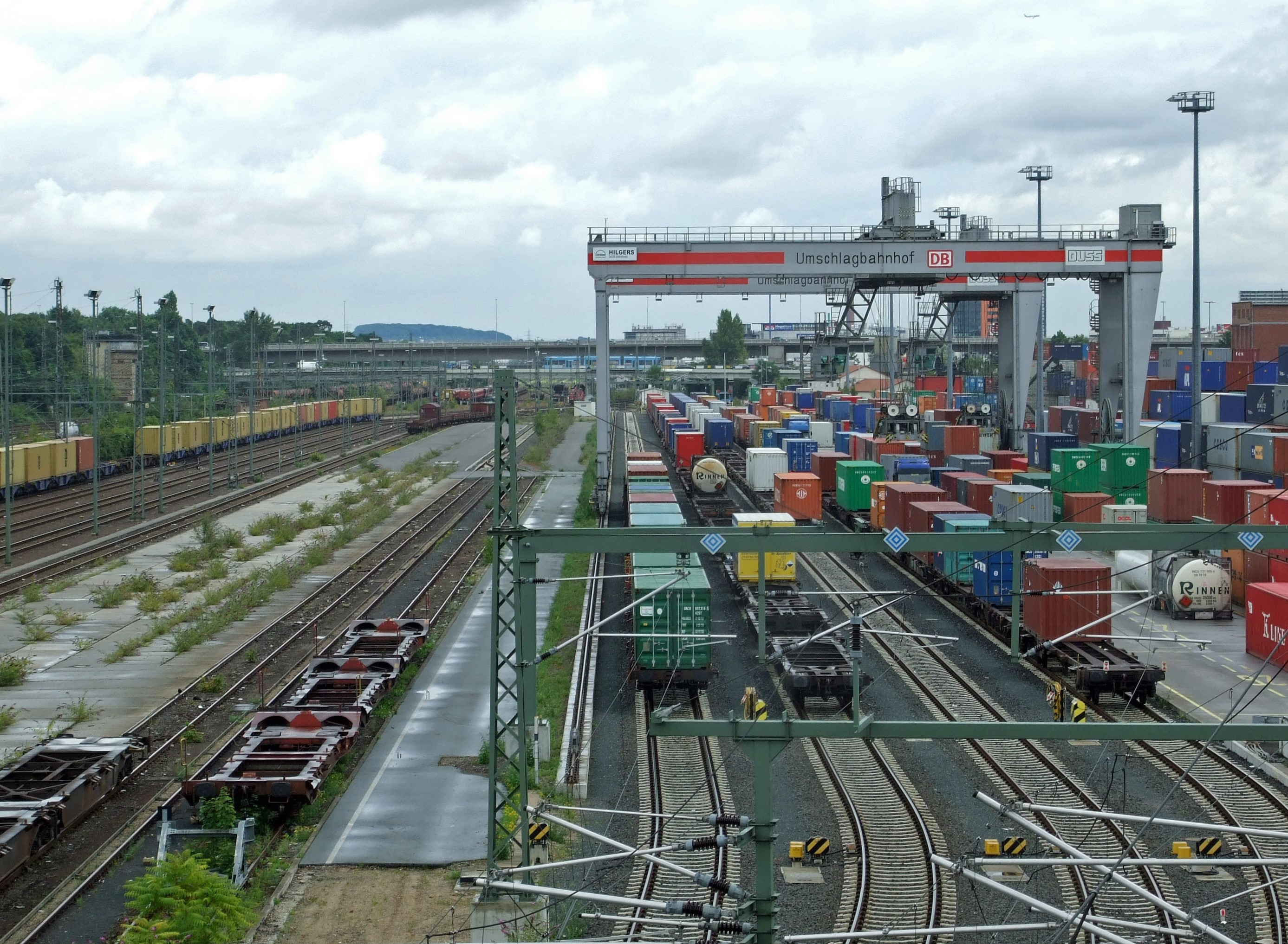 Container terminal, Frankfurt am Main East